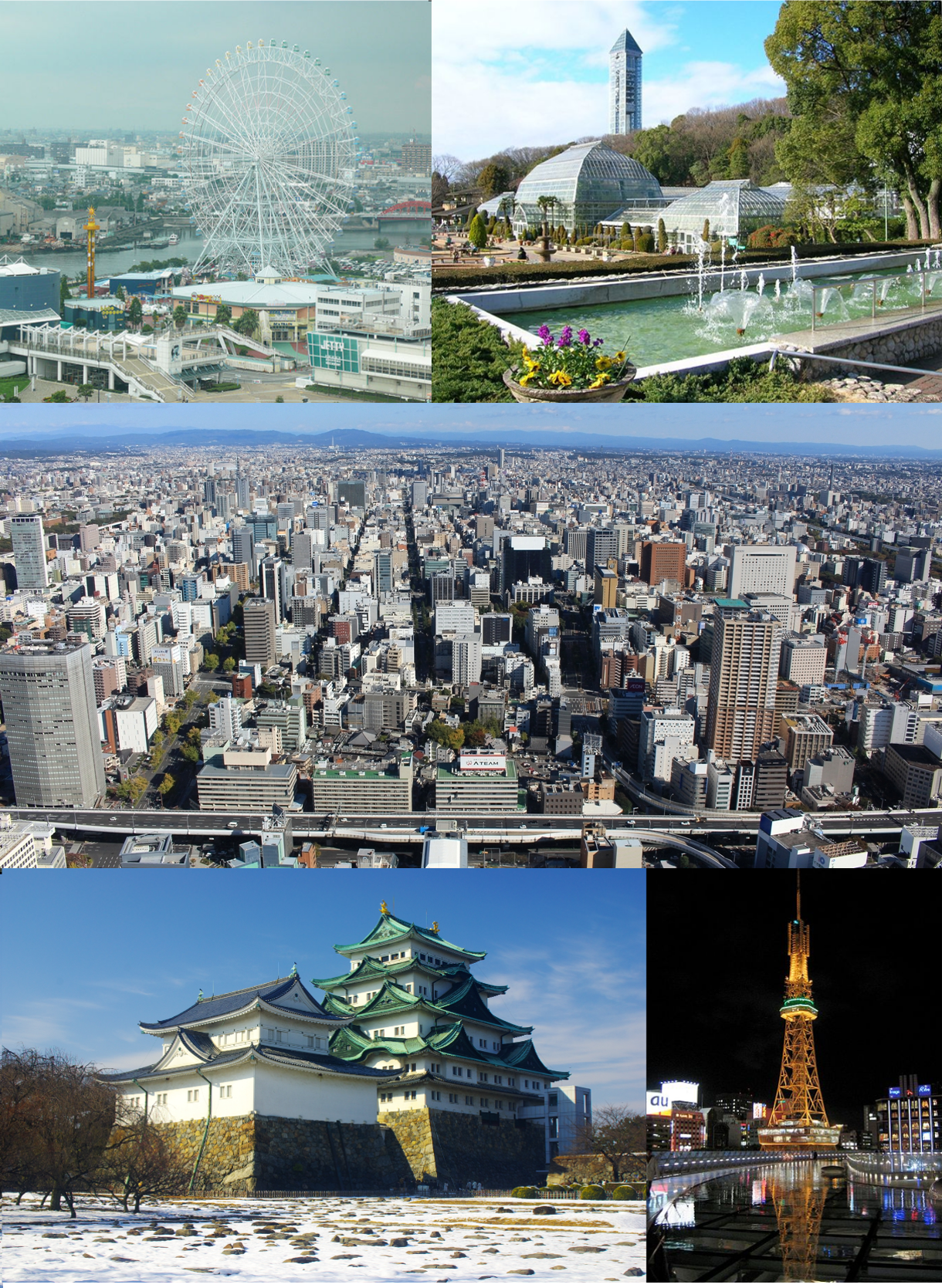 From top left: Nagoya Port, Higashiyama Zoo and Botanical Gardens, Central Nagoya, Nagoya TV Tower, Nagoya Castle.